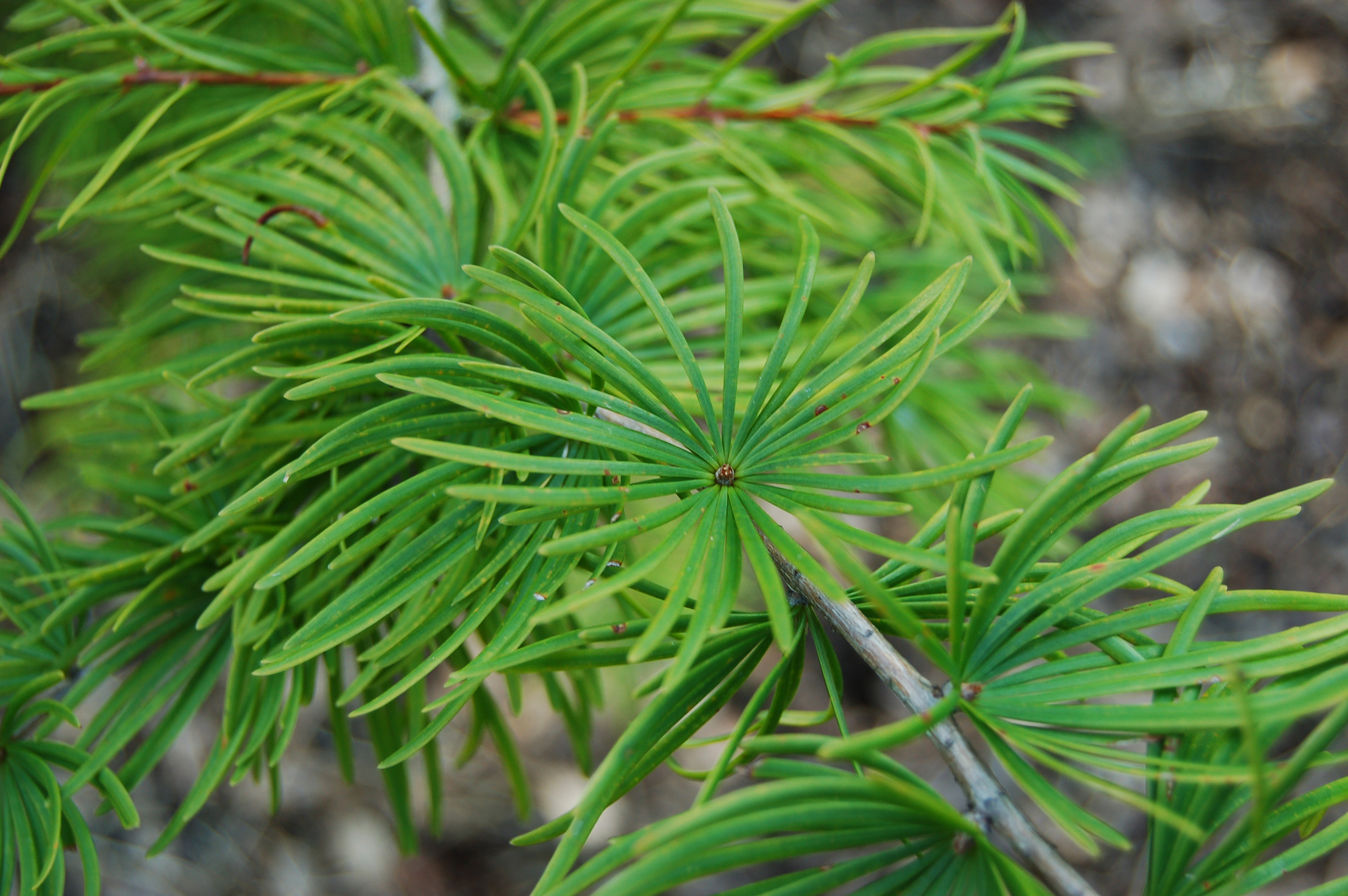 Photograph of the Golden Larchen (Pseudolarix amabilis en ). Photo taken at the Tyler Arboretum where it was identified.